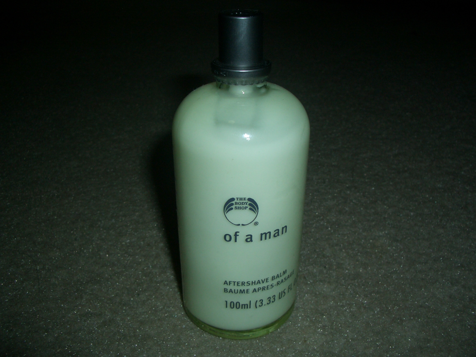 an aftershave balm product